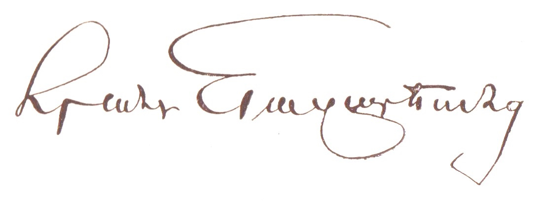 Armenian Signature of journalist Hrand Nazariantz